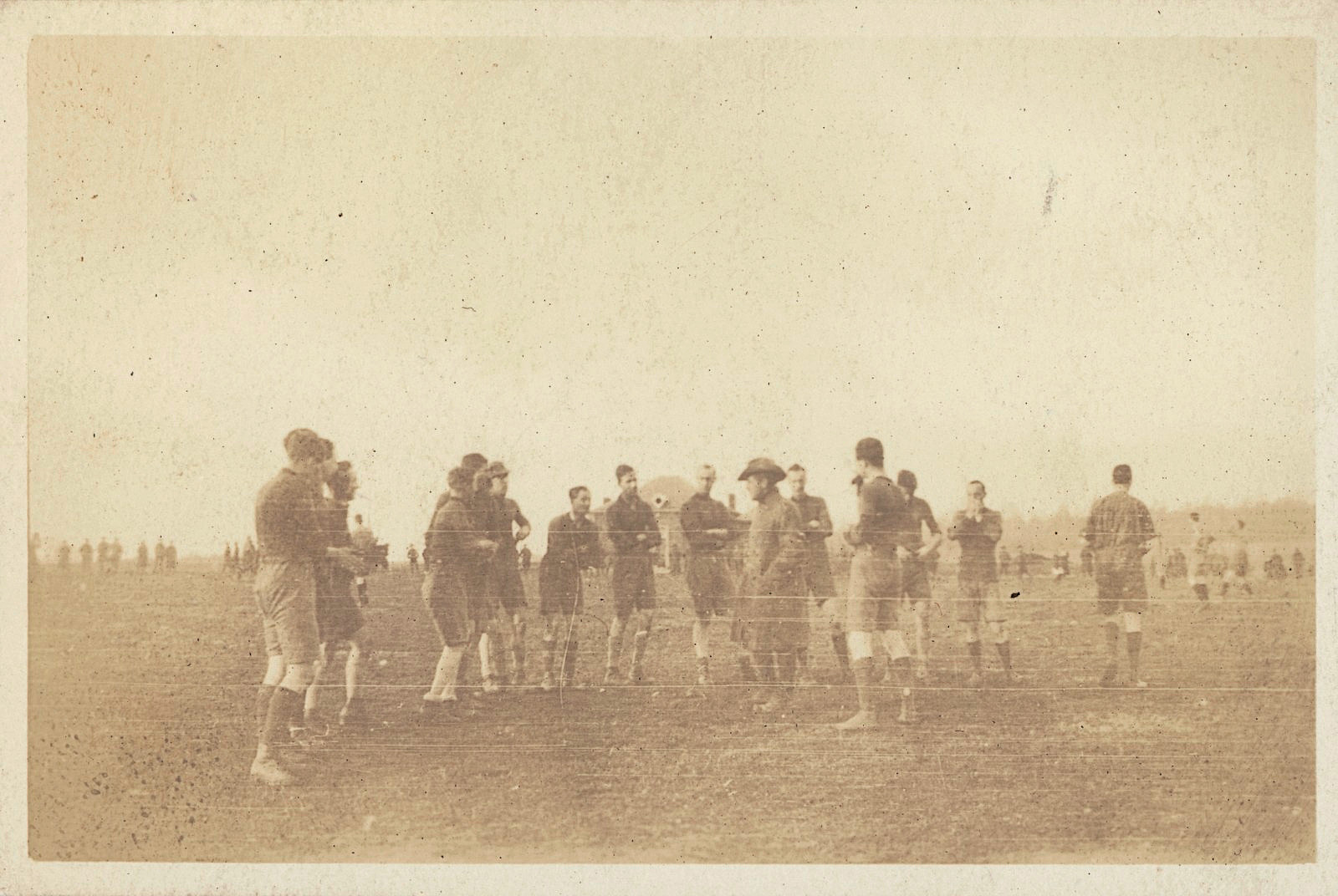 Shows 22nd Battalion football team captain speaking with his players before a match between Australian soldiers during World War 1.